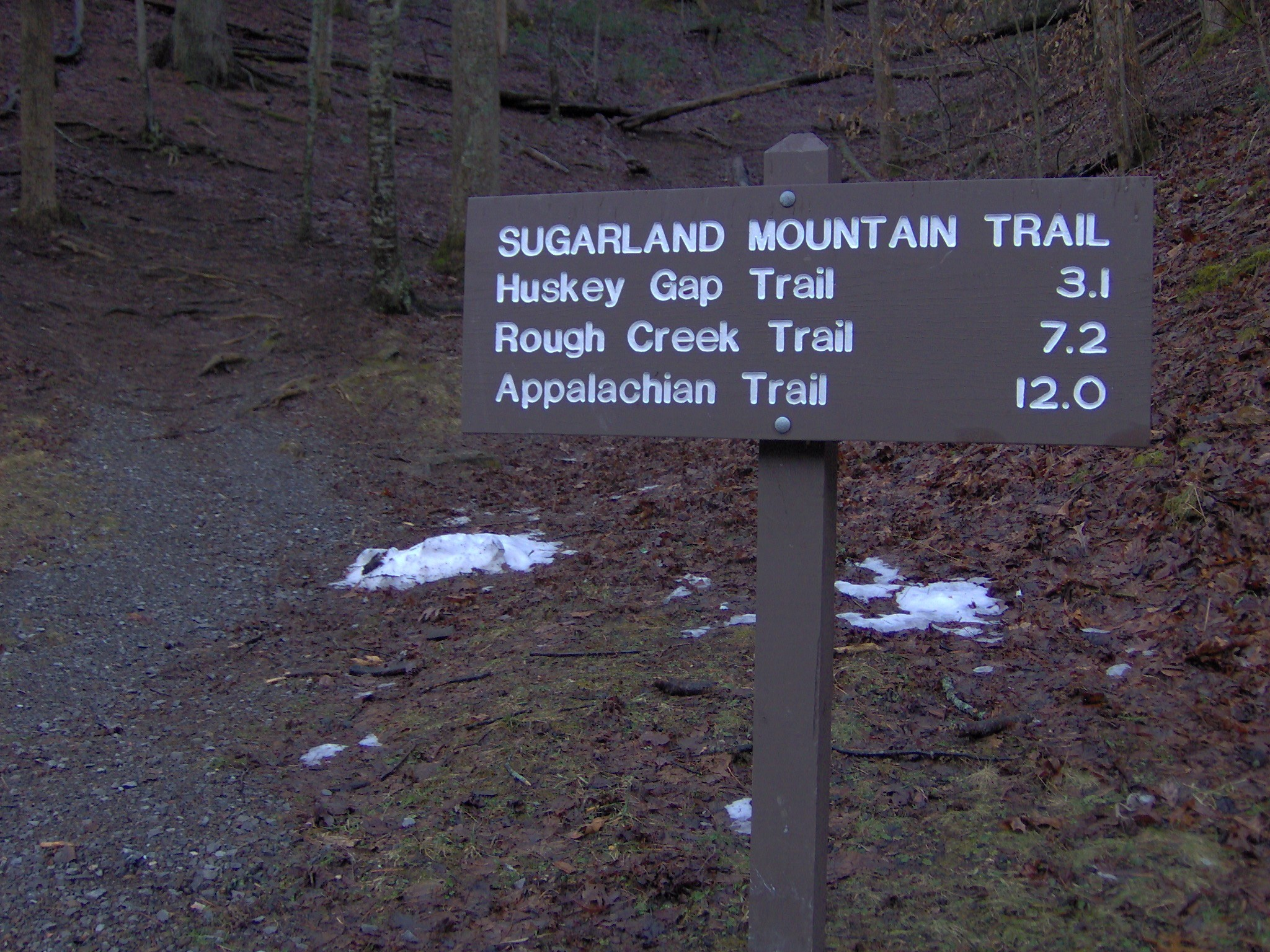 The Sugarland Mountain Trailhead along Little River Road at Fighting Creek Gap, in the Great Smoky Mountains of East Tennessee, in the southeastern United States. The Sugarland Mountain Trail spans the crest of the Sugarland Mountain.